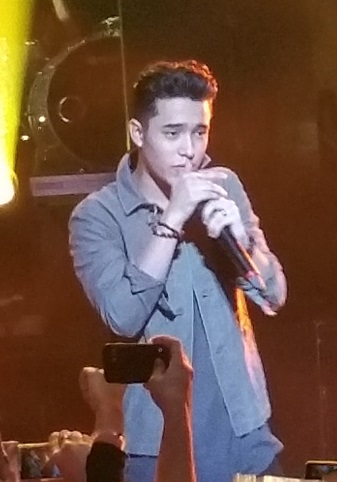 Joel Pimentel (Mexico), member of CNCO boy band (First winners of Univision music reality show La Banda), debut solo concert Jan. 30, 2016, at the Fillmore Miami Beach, Jackie Gleason Theater.